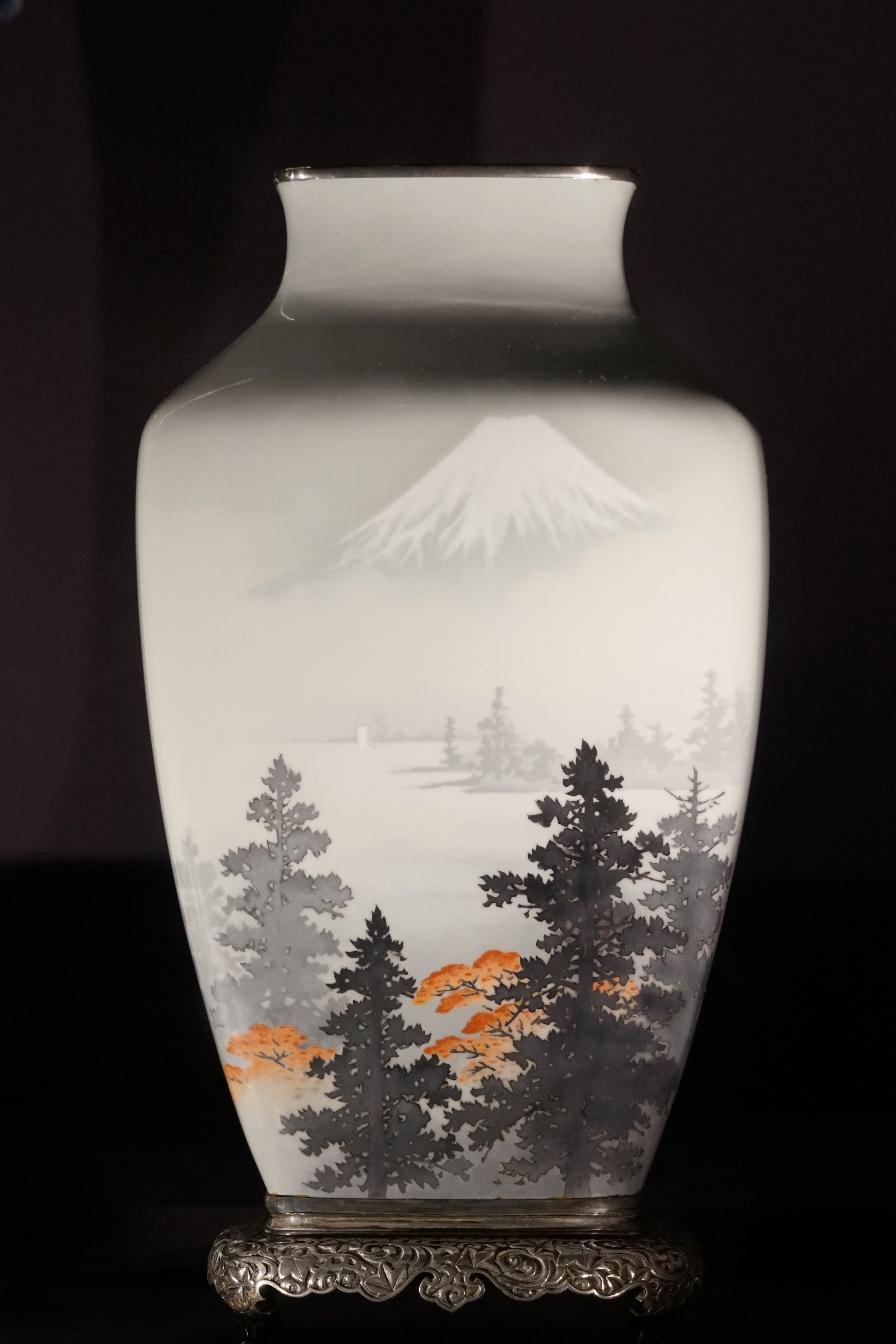 Japanese vase depicting Mount Fuji. From the Khalili Collection and exhibited at the "Meiji: Splendours of Imperial Japan" exhibition at the Guimet Museum of Asian Art